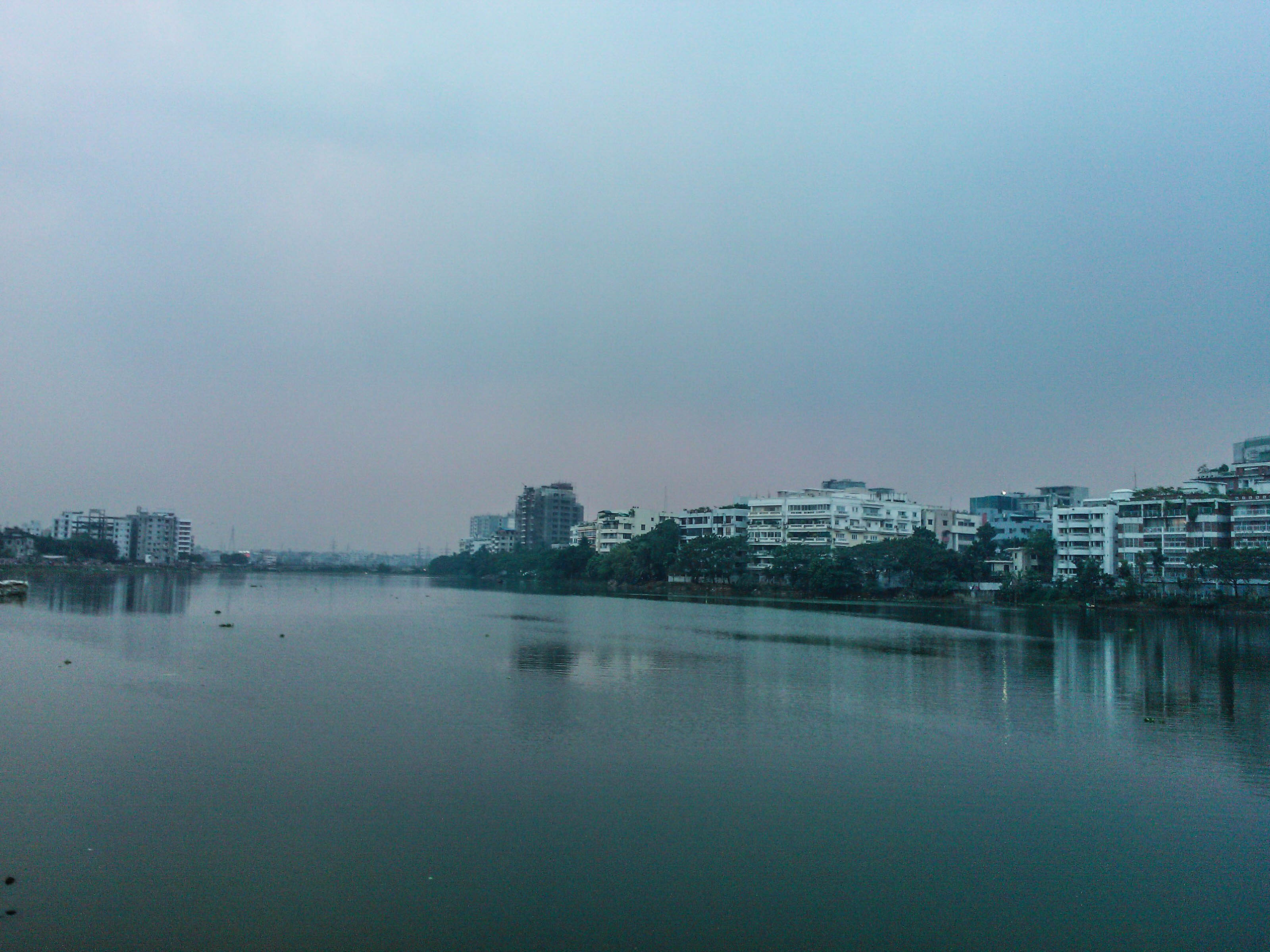 Gulshan Baridhara Lake is next to Gulshan and is located in Bangladesh. Gulshan Baridhara Lake has a length of 4.12 kilometres.